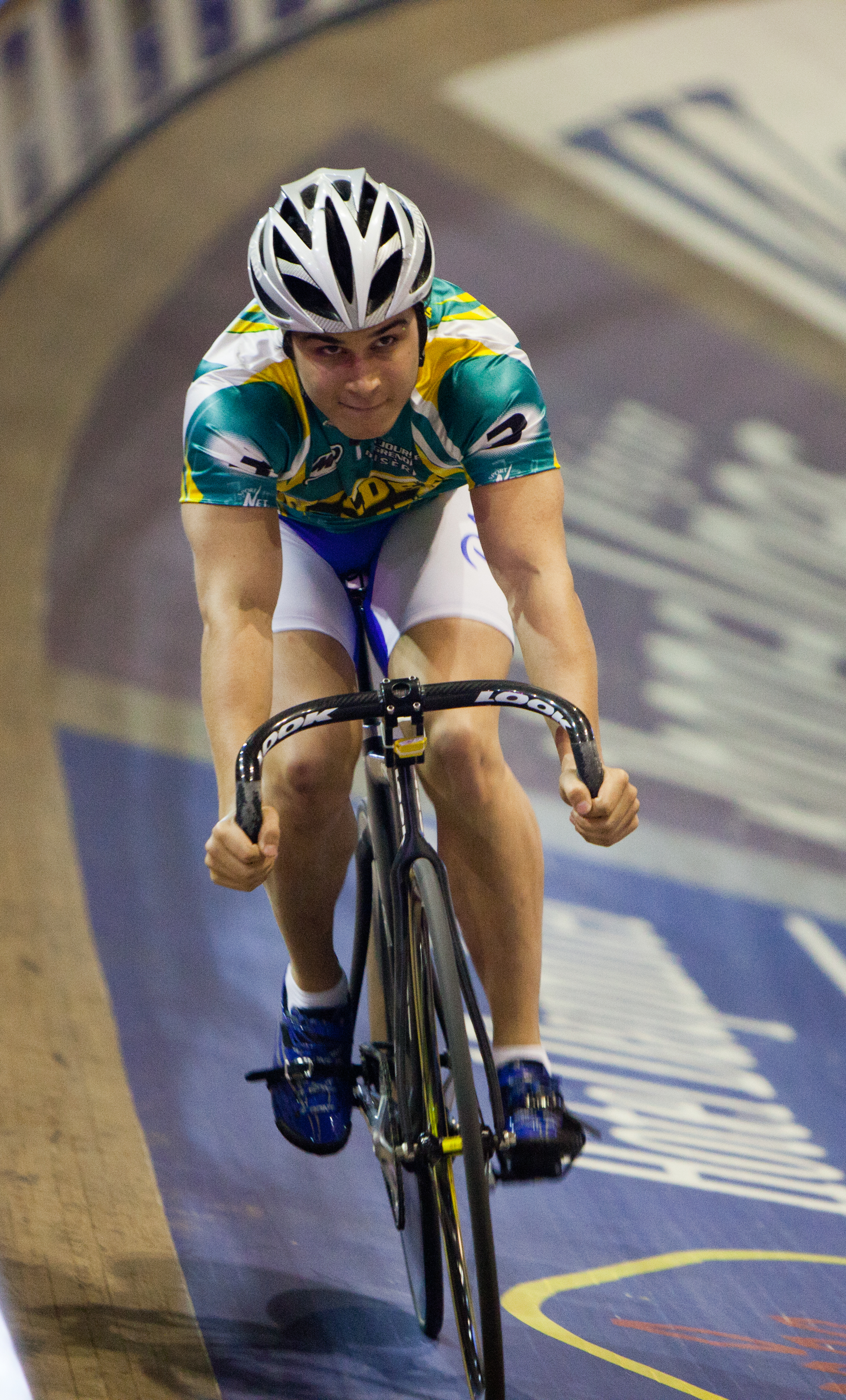 The making of this document was supported by Wikimedia CH. (Submit your project!) For all the files concerned, please see the category Supported by Wikimedia CH. Six jours de Grenoble 2011